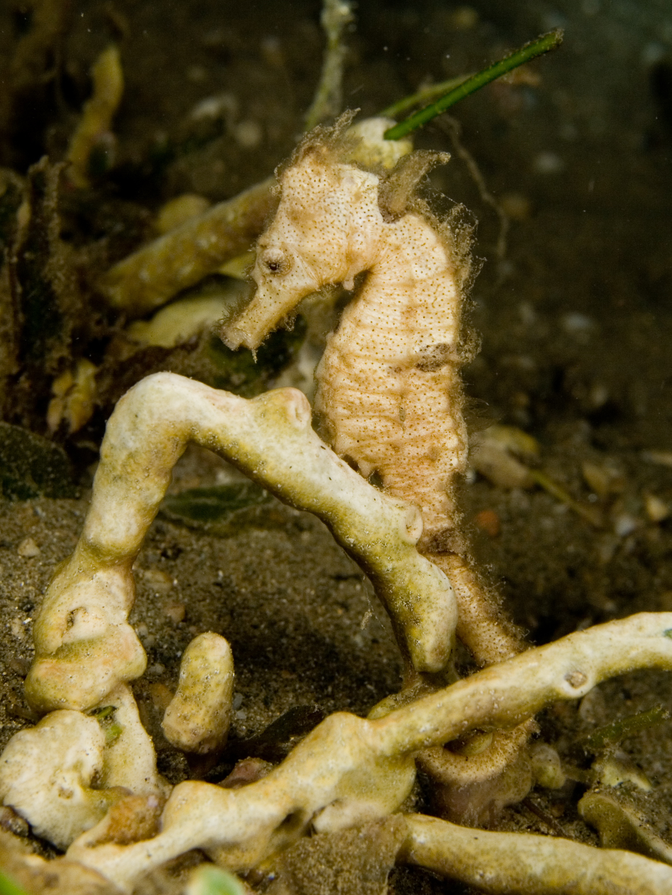 Small white seahorse Hippocampus kuda hiding amongst sponges of the same color